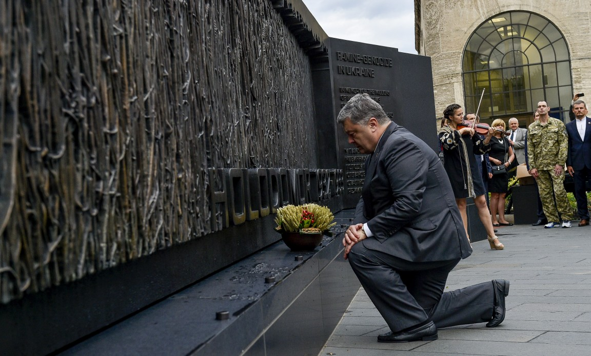 Working visit to the United States of America